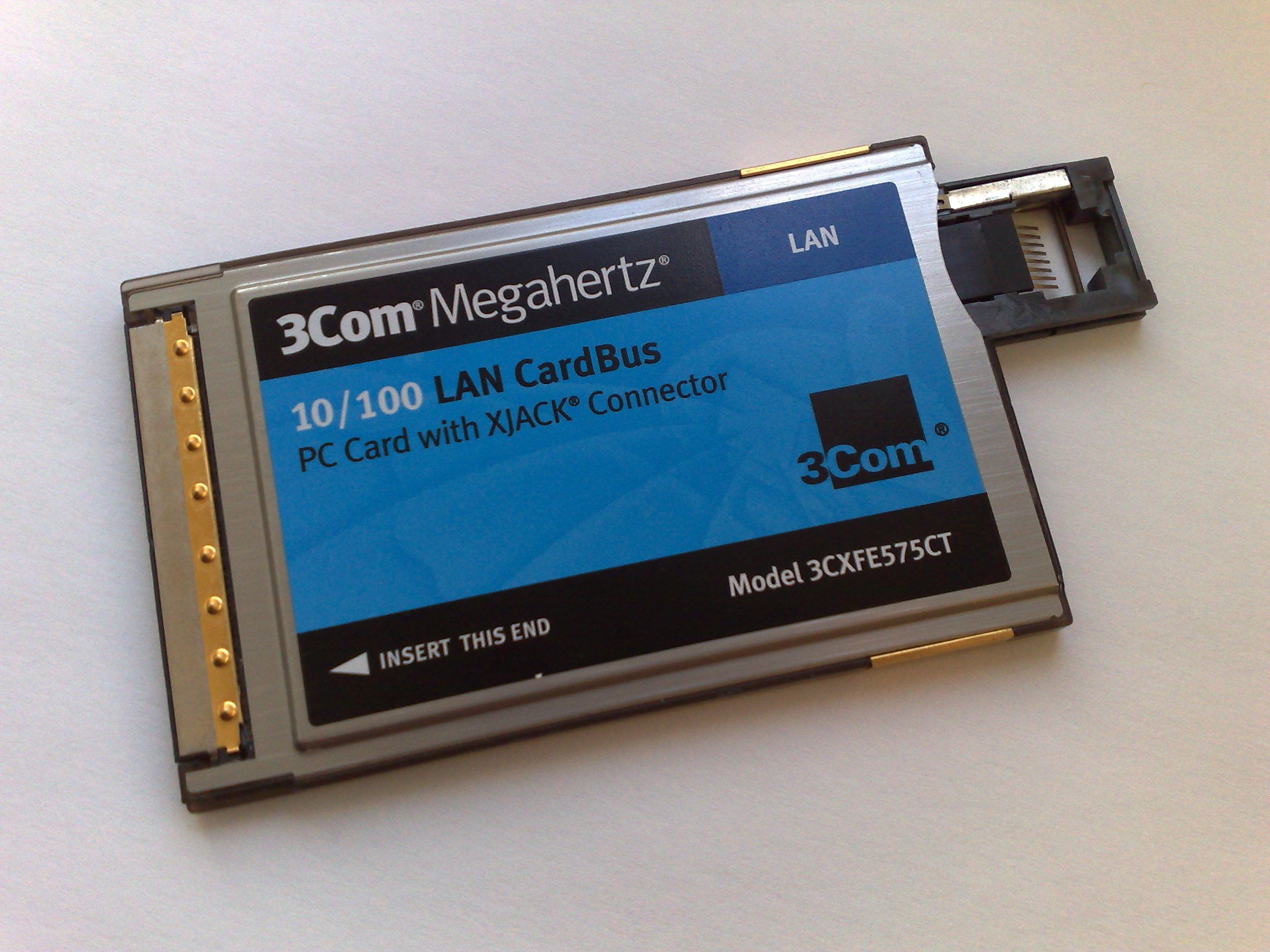 A 3Com 3CXFE575CT 10/100Mbps network card with an XJACK connector (extended)